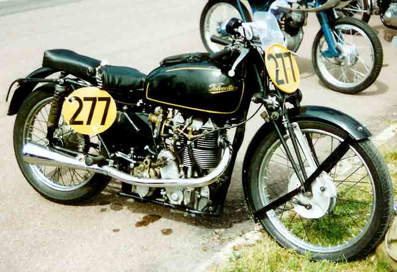 Velocette KTT Mk VII 350 cc OHC Racer 1948